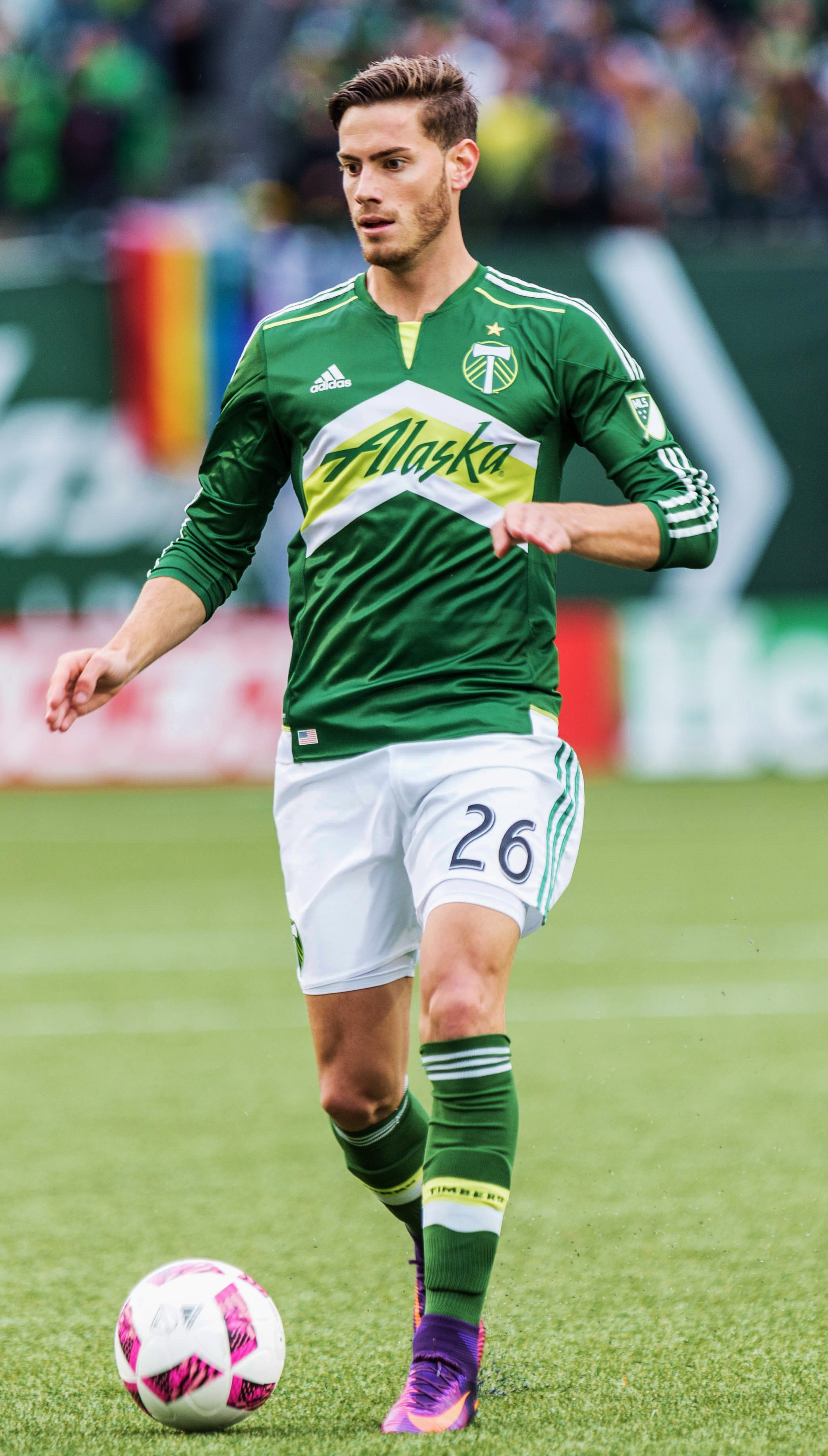 Lucas Melano